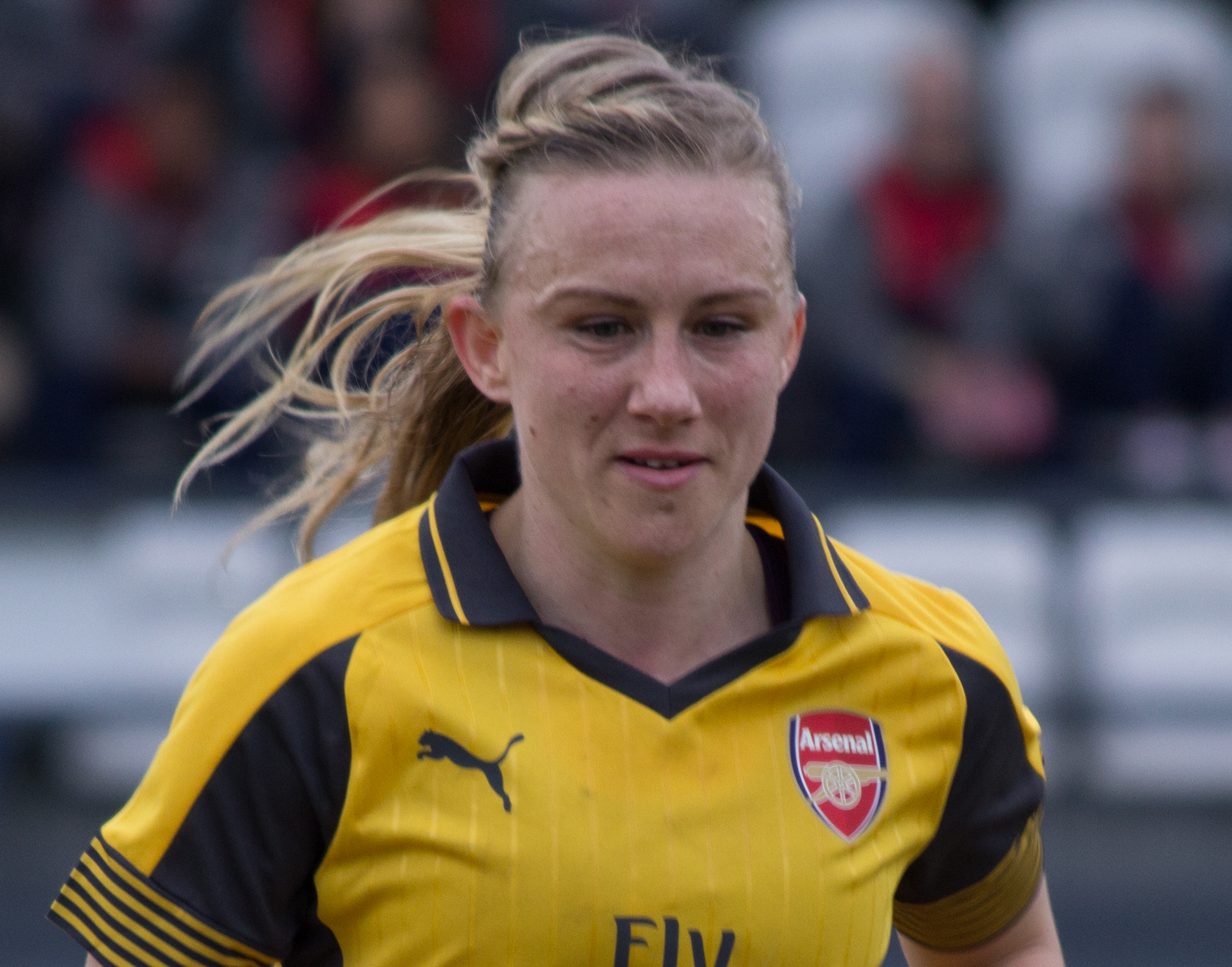 Arsenal LFC (Red) v Kelly Smith All-Stars XI (Yellow), 19 February 2017 – second half